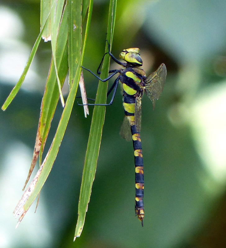 Anax immaculifrons, Magnificent Emperor, Blue Darner, is a species of dragonfly in the family Aeshnidae. It is found in many Asian countries and very few European countries. This is a female.